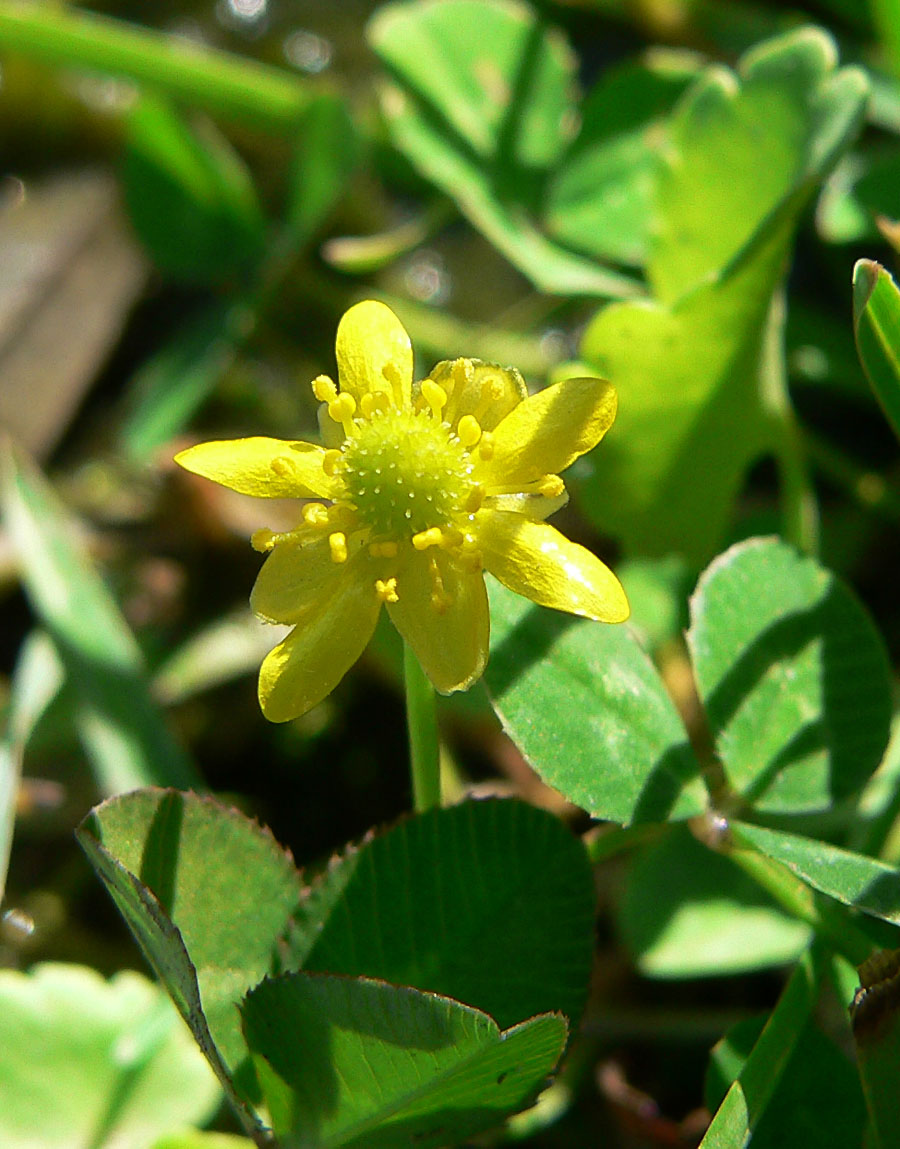 Ranunculus cymbalaria near Cold Creek Fire Station, Spring Mountains, southern Nevada (elev. about 1800 m)